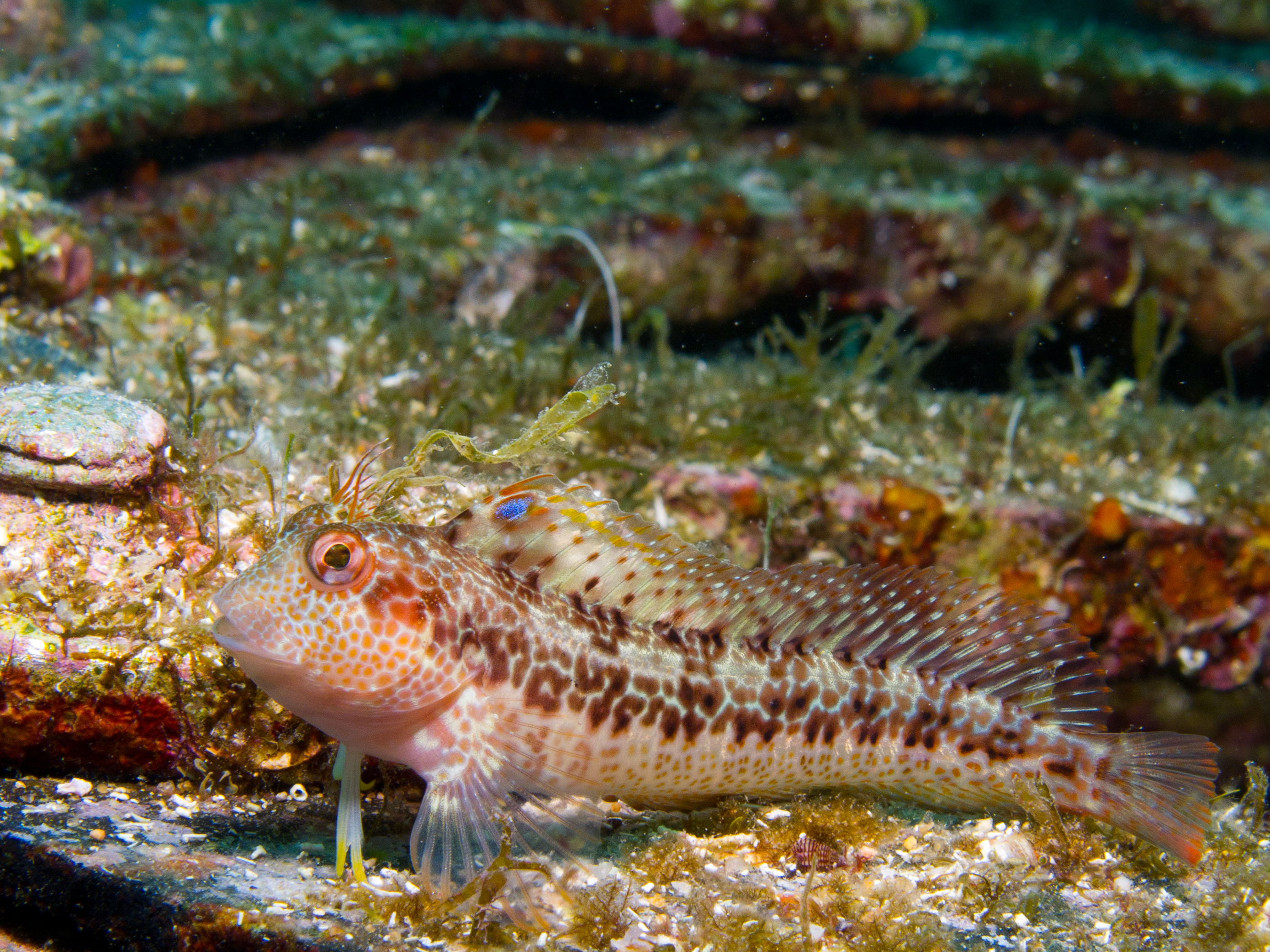 Photograph made in Sant Feliu de Guíxols (Costa Brava)